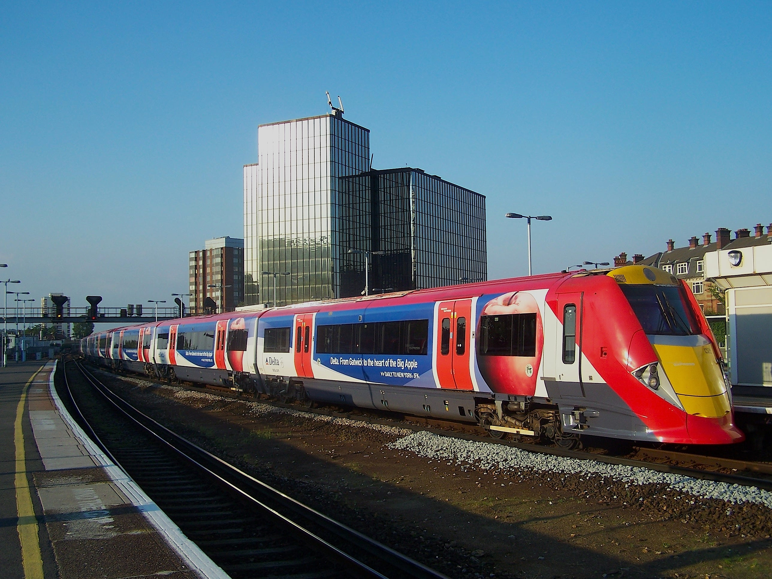 Gatwick Express operated Class 460 No. 460002, in Delta Airlines advertising livery, rushes through East Croydon, with a service to Gatwick Airport.